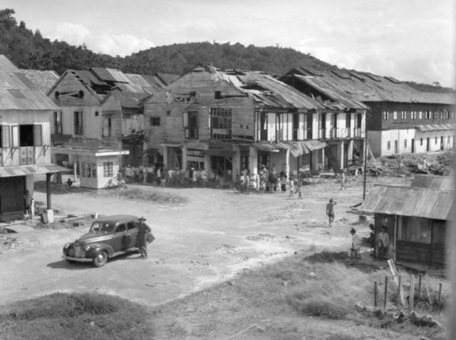 SOME OF THE BOMB DAMAGE AT JESSELTON, BRITISH NORTH BORNEO.